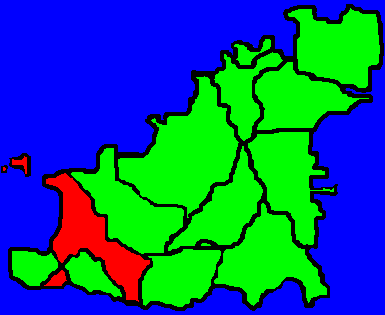 This map shows the location of St. Pierre Du Bois (shaded red) in relation to the rest of Guernsey. The surrounding parishes are St. Saviours, Torteval and Forest.